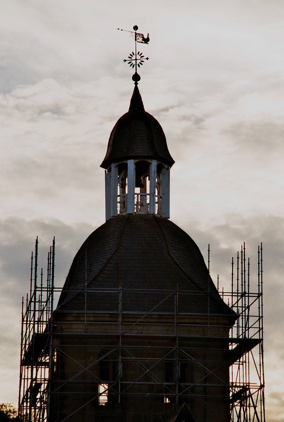 Protestant Church (Evangelische Stadtkirche) of Tecklenburg, Kreis Steinfurt, North Rhine-Westphalia, Germany.